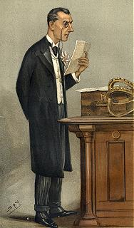 Caricature of Joseph Chamberlain. Caption read "The Colonies".